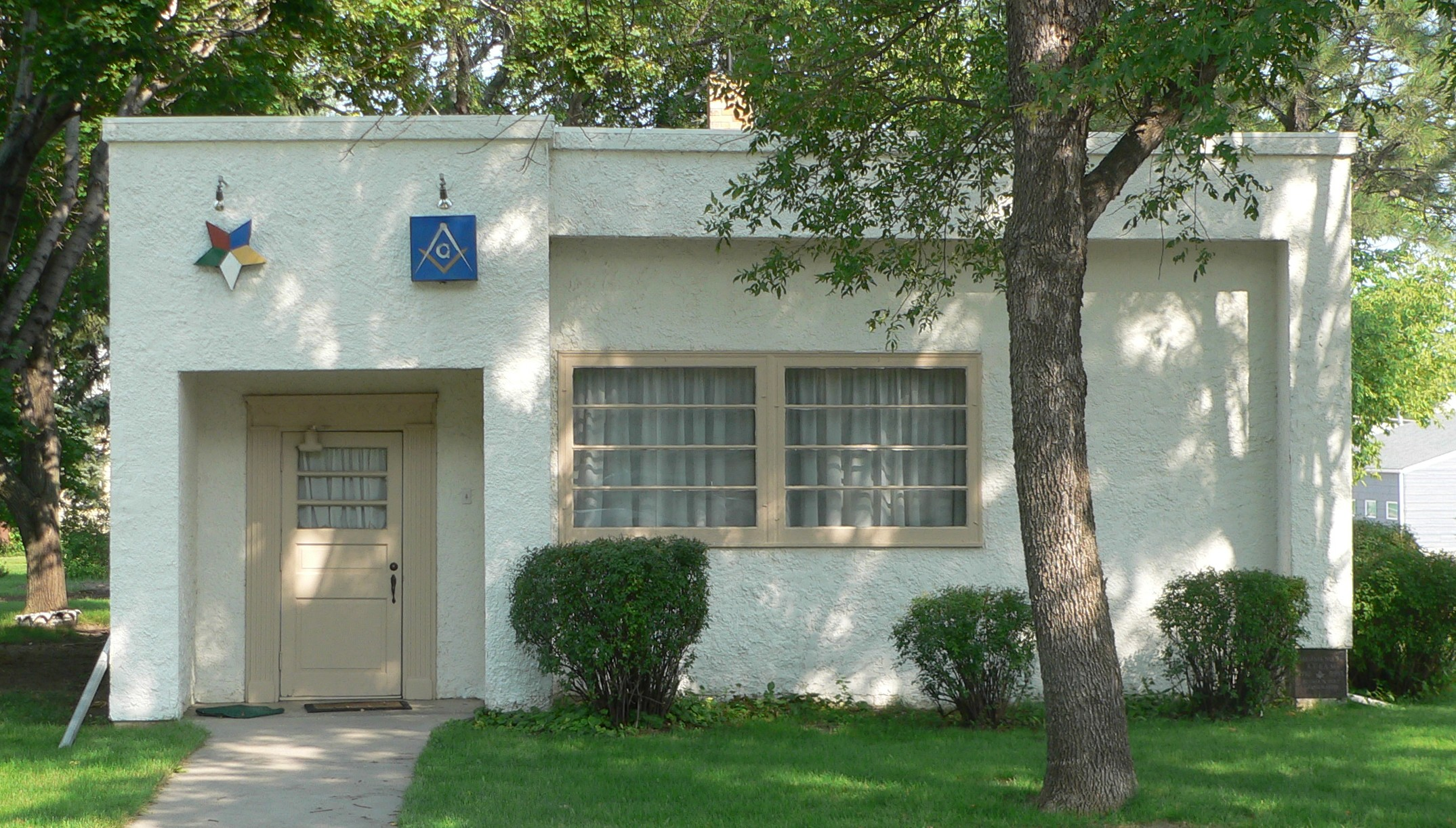 Masonic Temple at northeast corner of 3rd and Main Streets in Armour, South Dakota; seen from the west. The building is a non-contributing property in the Armour Historic District, listed in the National Register of Historic Places.